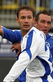 Aleksandr Shvetsov in action for FC Krylya Sovetov